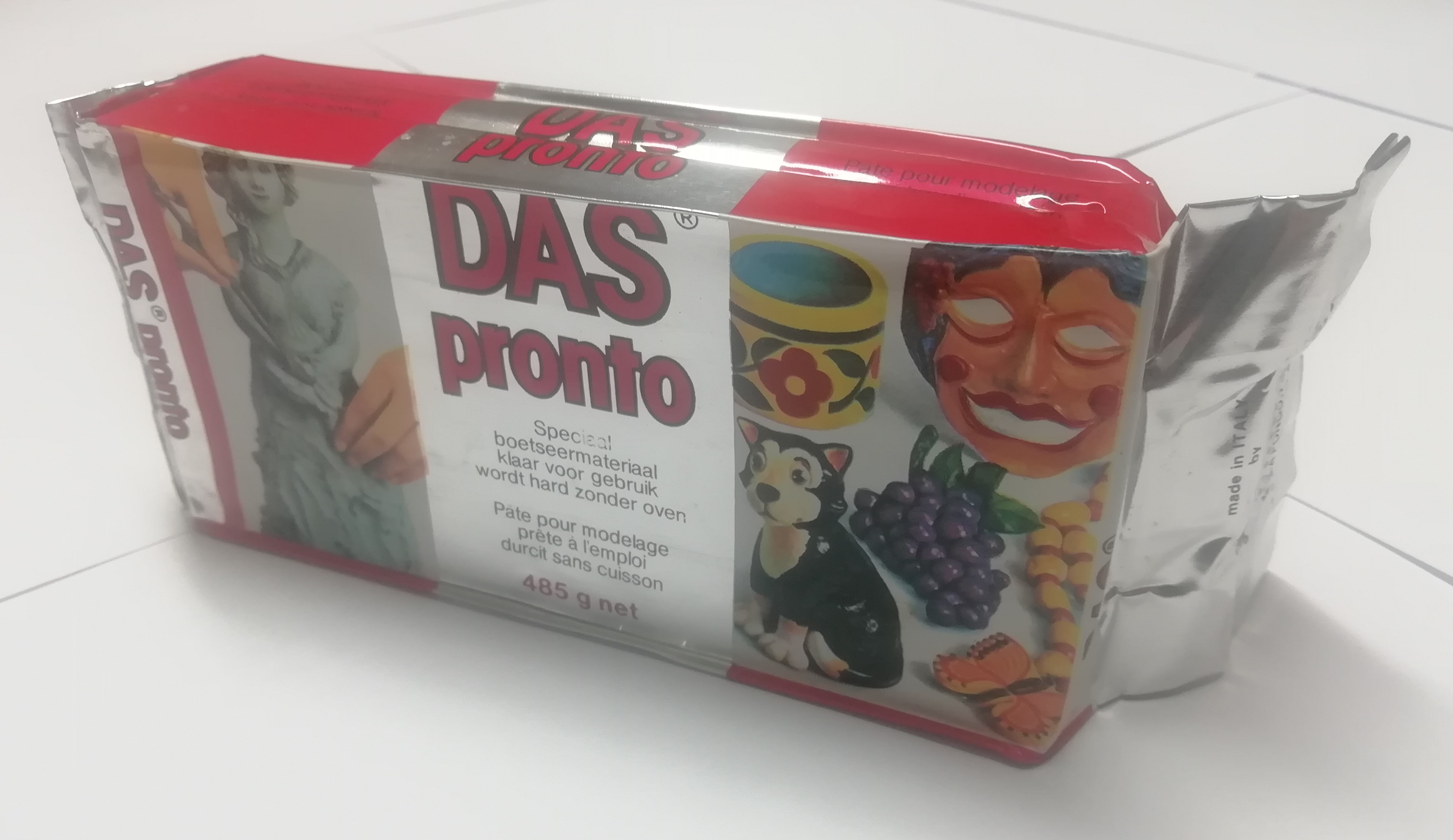 A grey-coloured pack of DAS modelling clay, produced by Adica Pongo